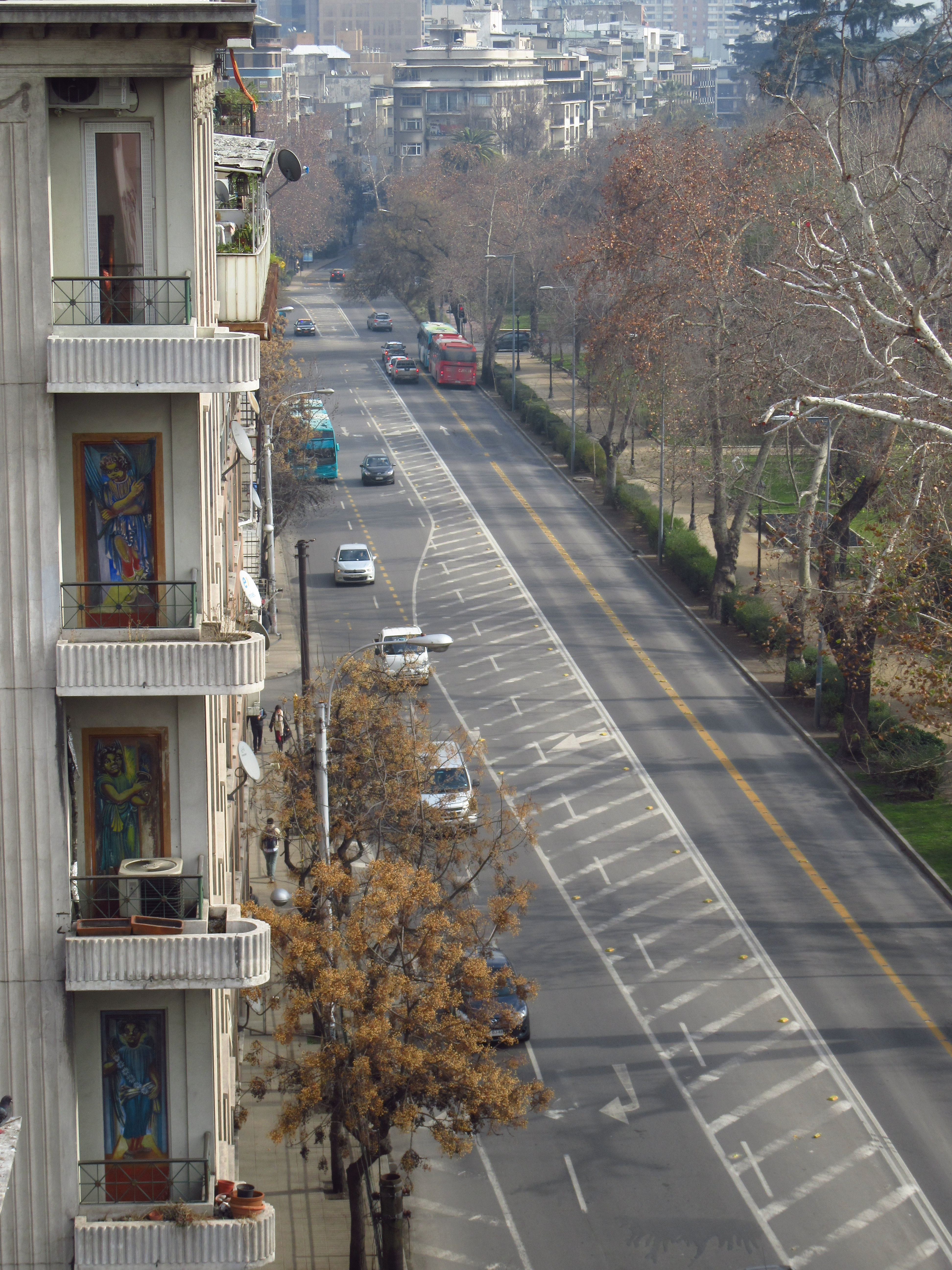 2017 in Santiago de Chile